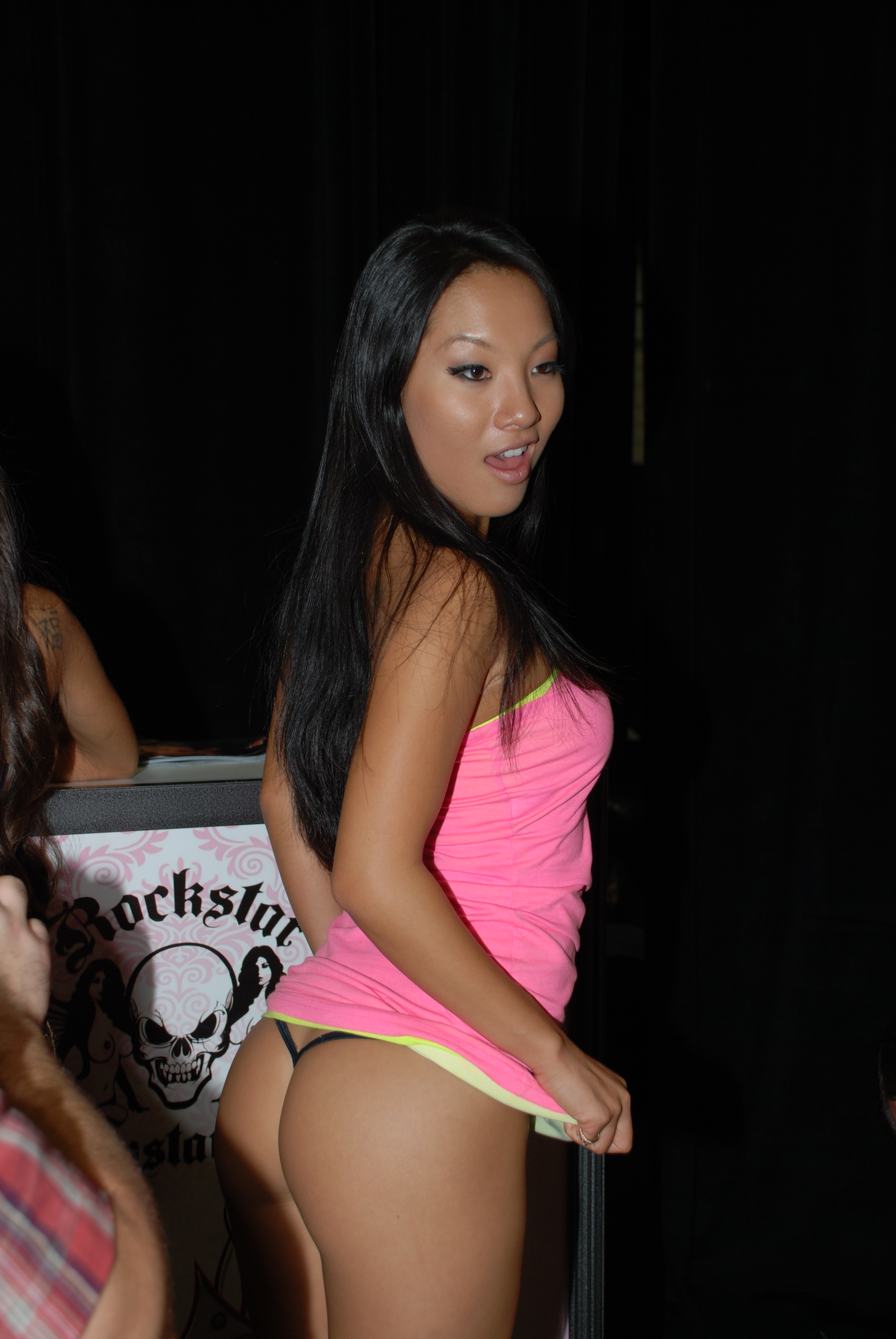 Asa Akira at Exxotica NY 2009.